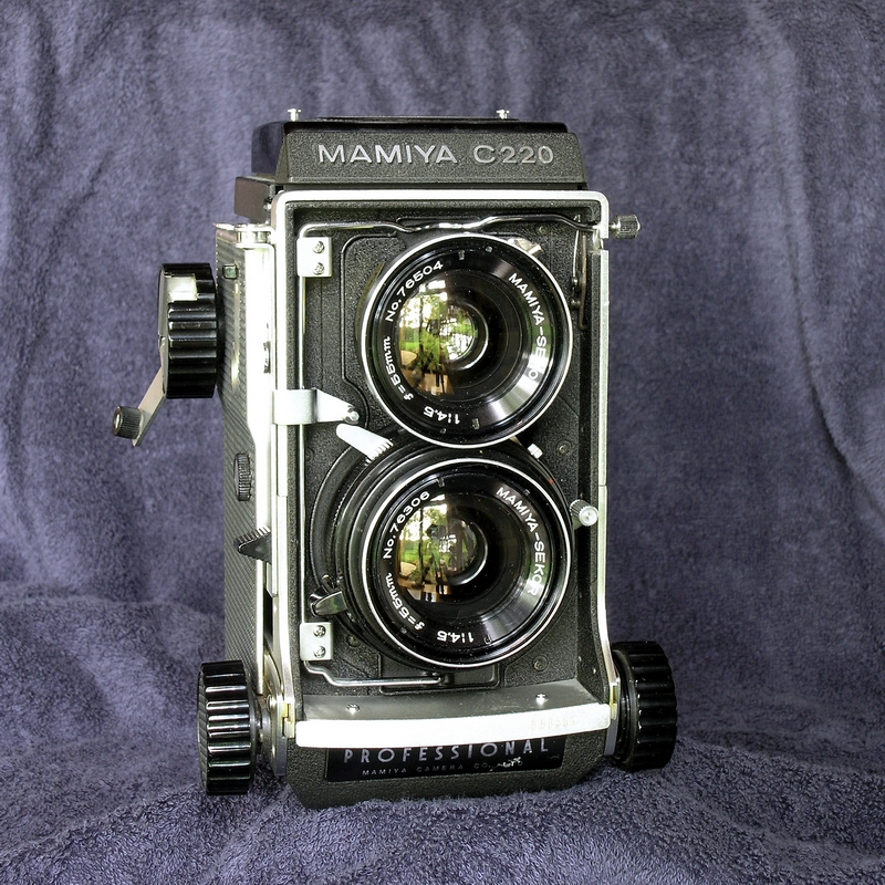 DANYvanvee